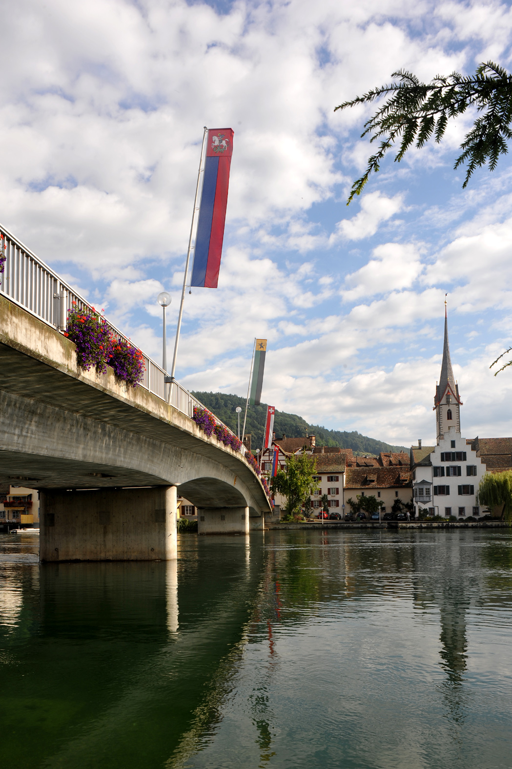 Road bridge over river Rhine in Stein am Rhein; Schaffhausen, Switzerland.